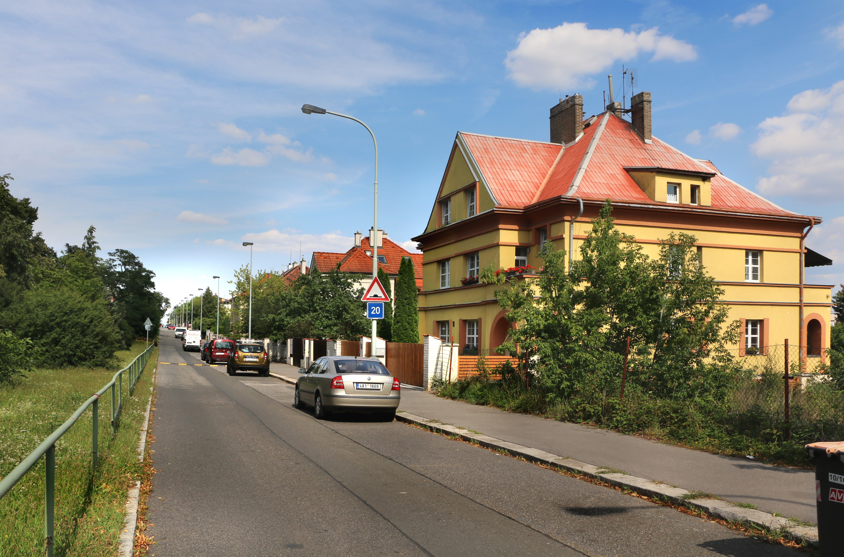 South part of Na Třebešíně street, Prague.